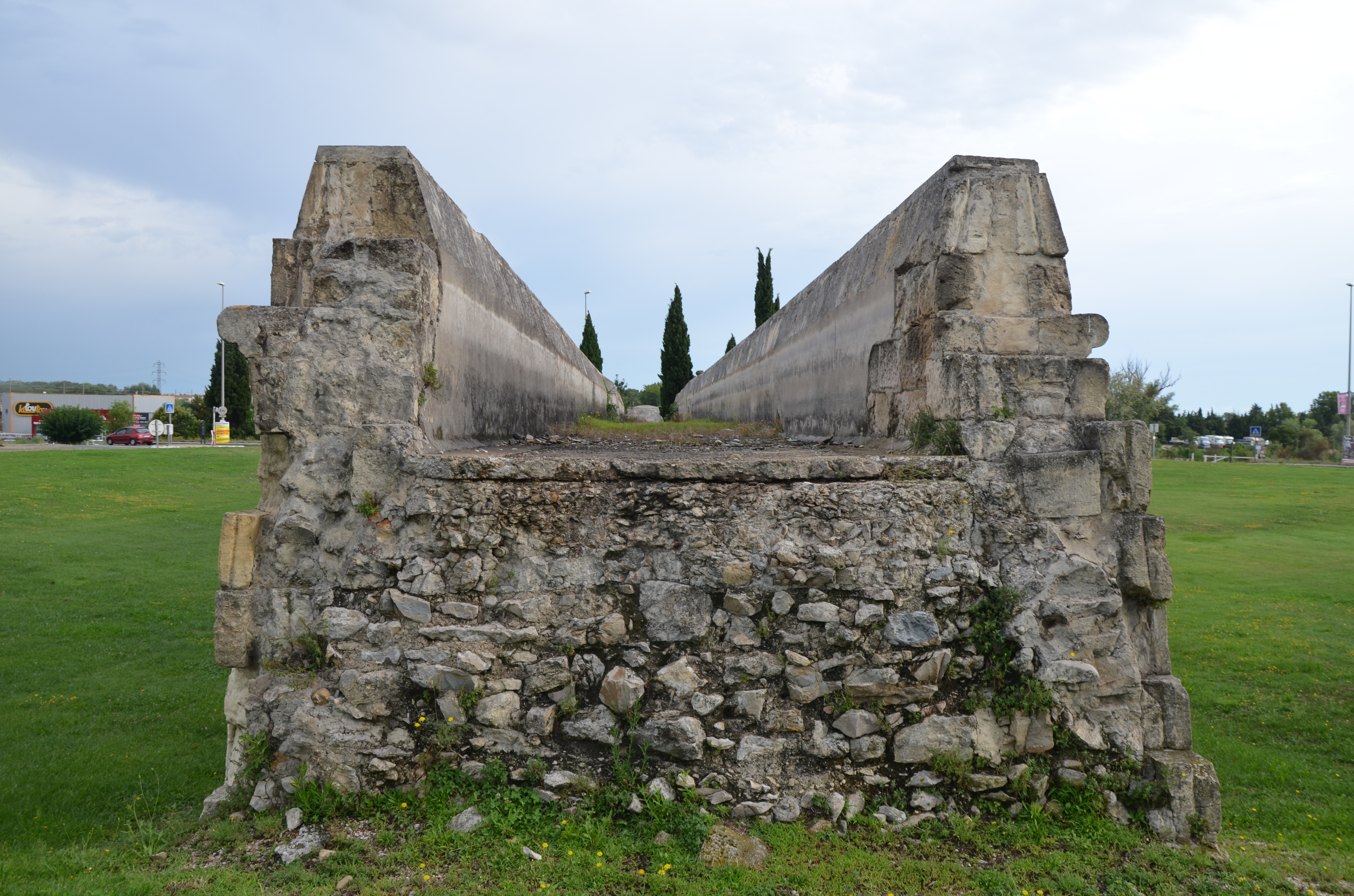 Aqueduct of Pont de Crau built in the 1st century AD, Arles, France